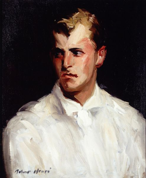 Portrait of Carl Sprinchorn by Robert Henri, 1910, oil on canvas, 24 x 20 inches